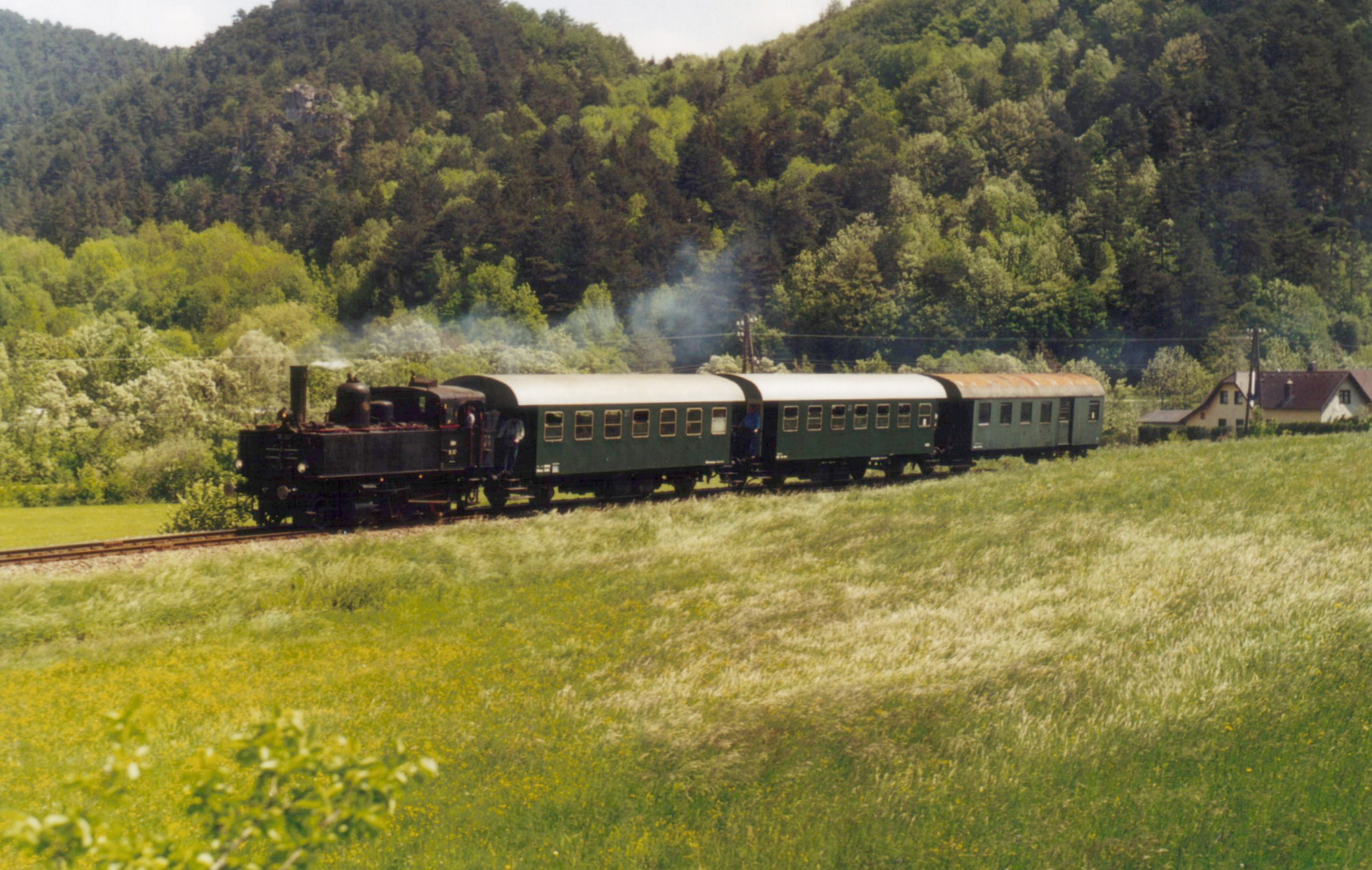 Enthusiast's special train with class 91 on the now closed Türnitz branch line in Lower Austria. Author: Johann Blieberger